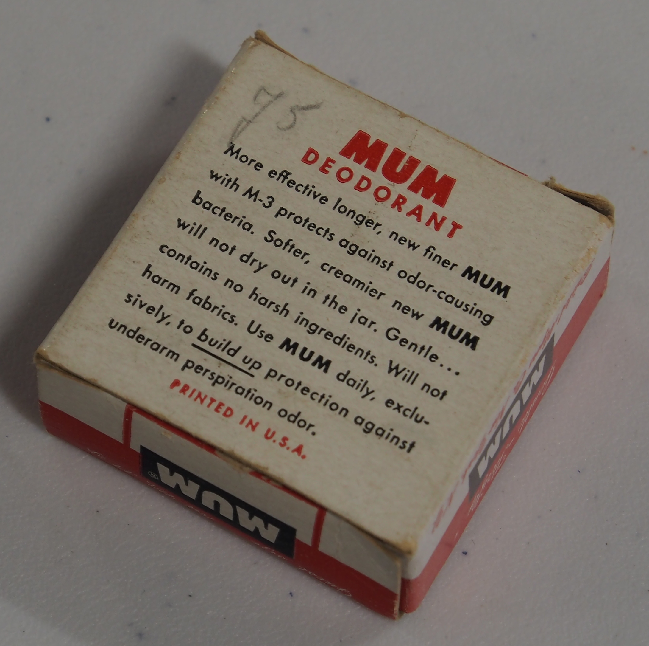 Old product that is not produced and not sold anymore for a very long time and the company does not exist anymore either.